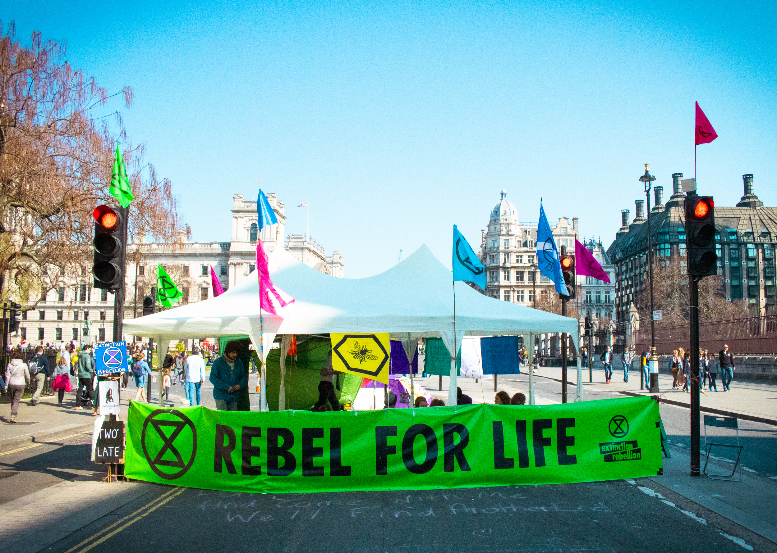 Extinction Rebellion, Saturday 20 April 2019, central London. Banner "Rebel for life".